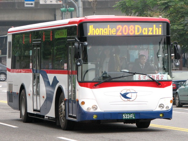 Chih Nan Bus Company operate route 208 with Daewoo BC211MA structure, in this picture is 533FL.